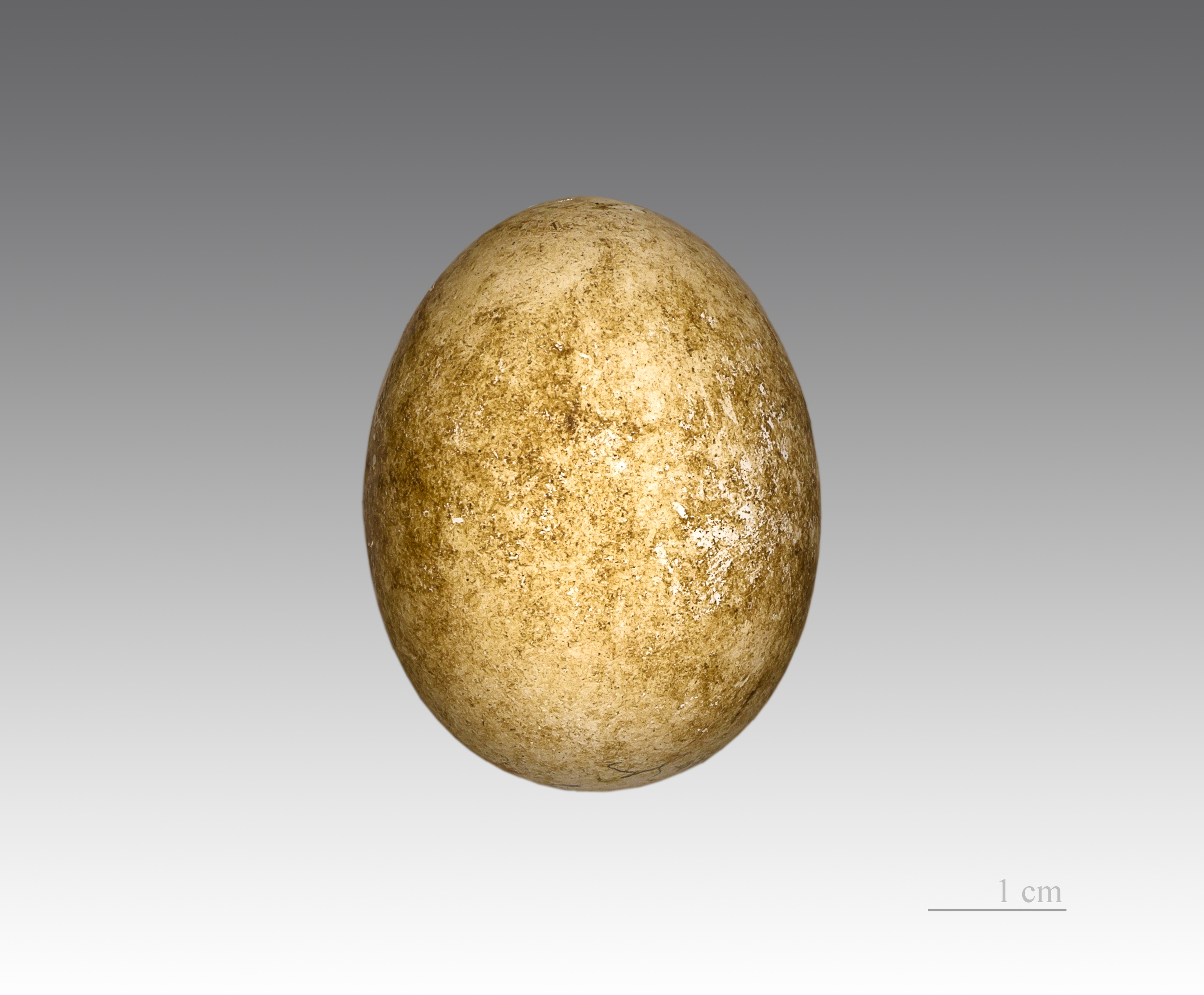 Egg of Common Diving Petrel. Collection of Vincent Bretagnolle /Jacques Perrin de Brichambaut Locality: Mayes Islands, Kerguelen Islands, France